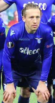 Italy club Lazio line-up before the UEFA Europa League match against Ukraine side Dynamo Kyiv.